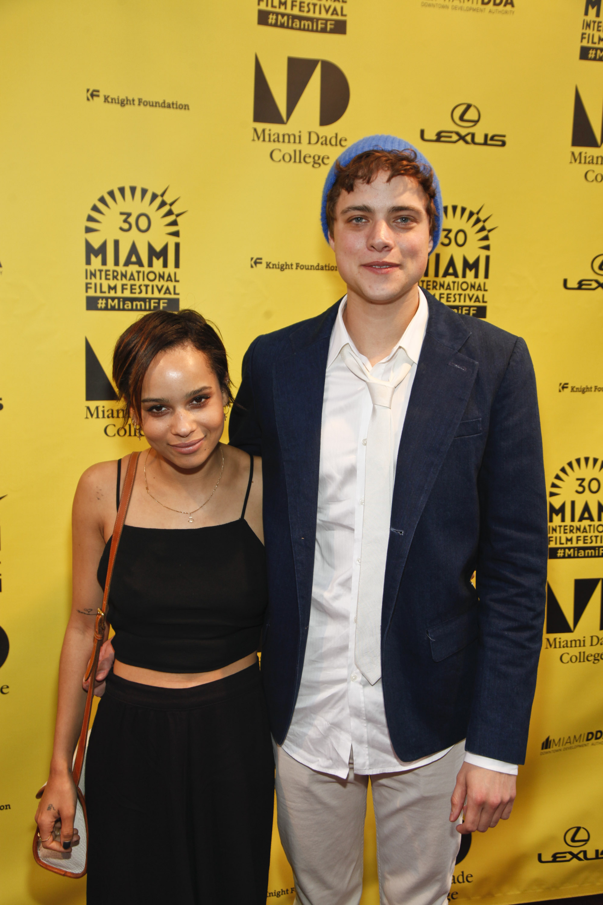 THE BOY WHO SMELLS LIKE FISH actors Zoë Kravitz and Douglas Smith at the MIFF 2013 World Premiere at Olympia Theater at the Gusman Center for the Performing Arts, March 2, 2013